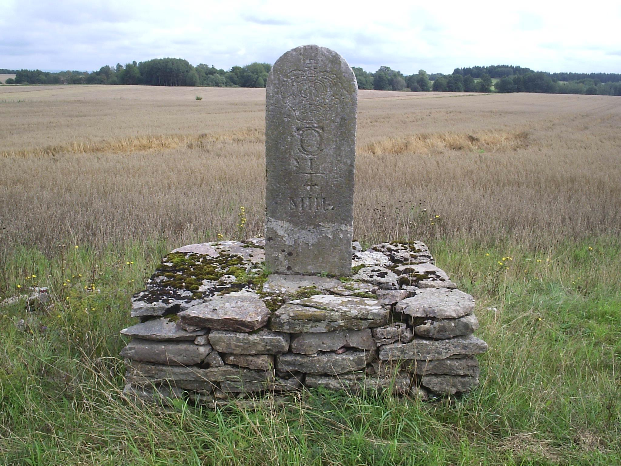 Photo by Harri Blomberg.